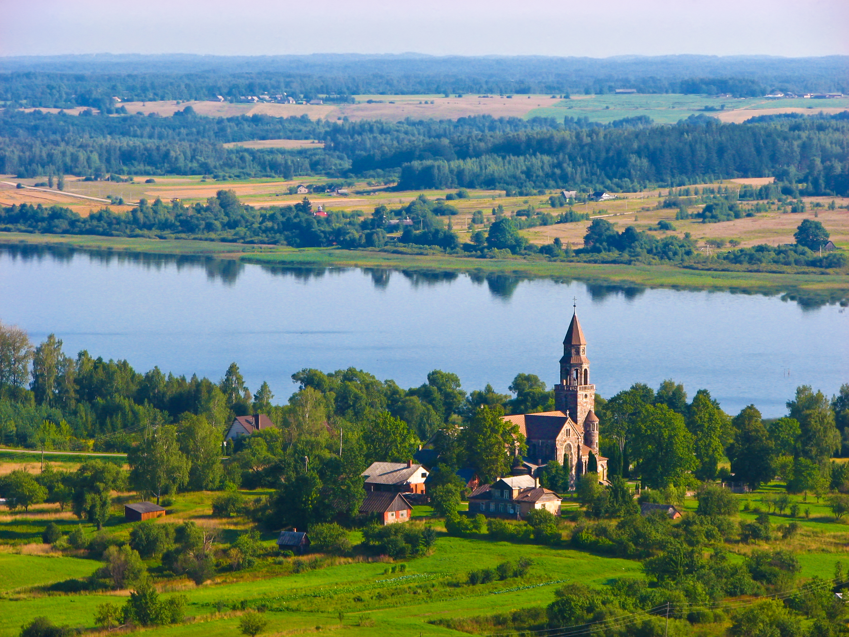 Saint John the Baptist church in Višķi, Latvia